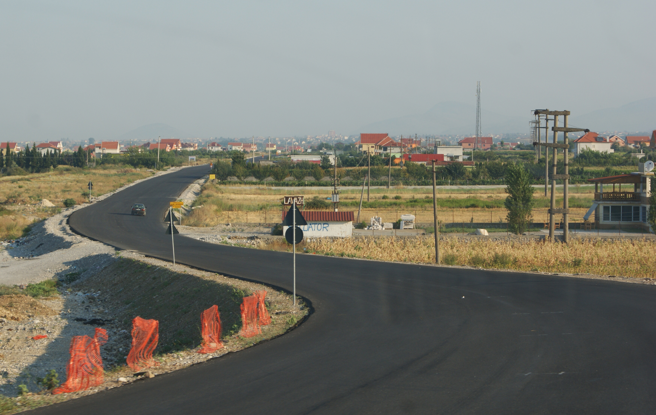 Albania, freshly reconstructed road from Shkodra to Han i Hotit (SH1) south of Koplik (in the background)